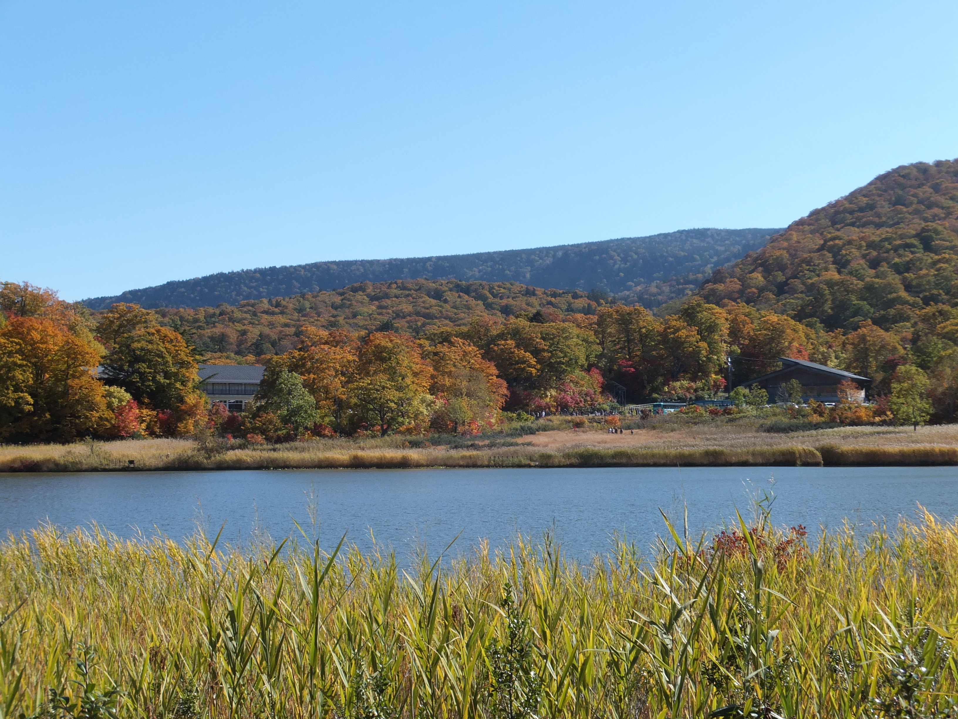 Onuma in Kazuno City, Akita Prefecture, Japan